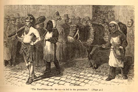 New Orleans: 1875 engraving "The Boeuf-Gras--the fat ox--is led in the procession." Shows tradition in the Rex Mardi Gras parade. Le sacrificateur est inspiré par le Carnaval de Paris. Per [1] this is the 1873 Rex parade.